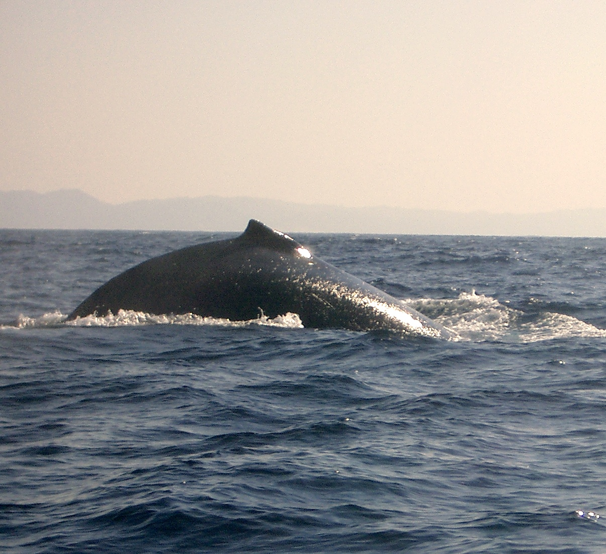 Wale in St. Lucia, South Africa